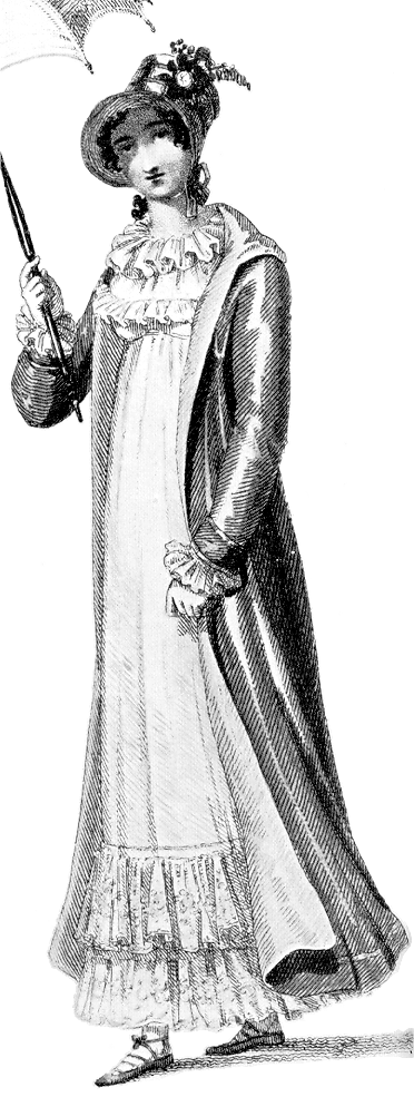 1815 Walking Costume from Ackermann's Repository. Probably closer to the everyday wear of the average English country gentlewoman, during the years when Jane Austen was publishing her novels, than are the clothes depicted in many other fashion plates of the time...